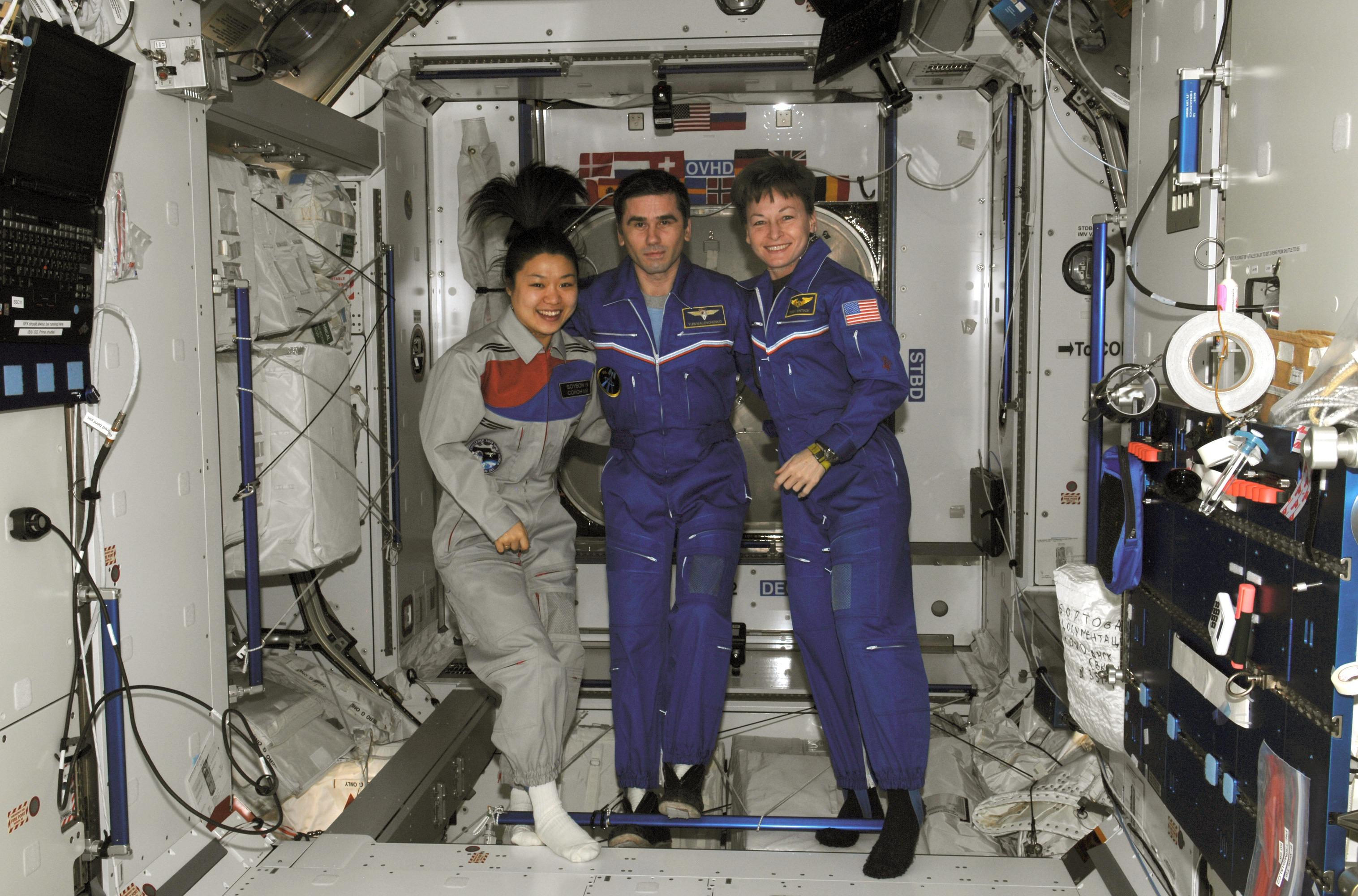 International Space Station Imagery ISS016-E-036365 (17 April 2008) --- NASA astronaut Peggy Whitson (right), Expedition 16 commander; Russian Federal Space Agency cosmonaut Yuri Malenchenko, flight engineer; and South Korean spaceflight participant So-yeon Yi pose for a photo in the Harmony node of the International Space Station.